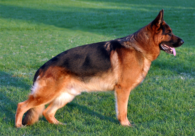 Adult German shepherd dog